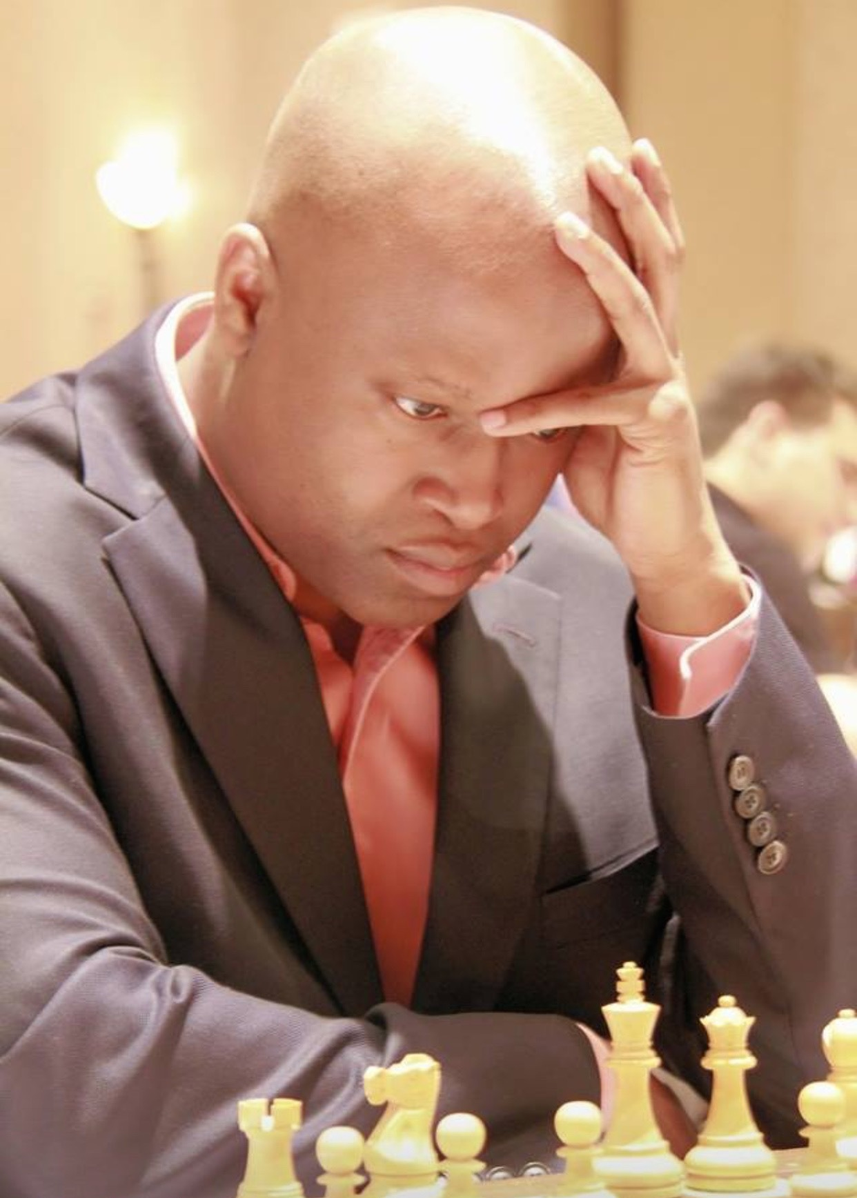 A head shot of GM Maurice Ashley playing chess